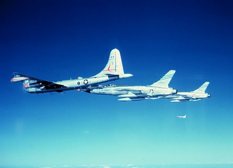 KB-50J of the 420th Air Refueling Squadron refueling 2 Republic F-105D's from the 23d Tactical Fighter Squadron, Bitburg AB West Germany.